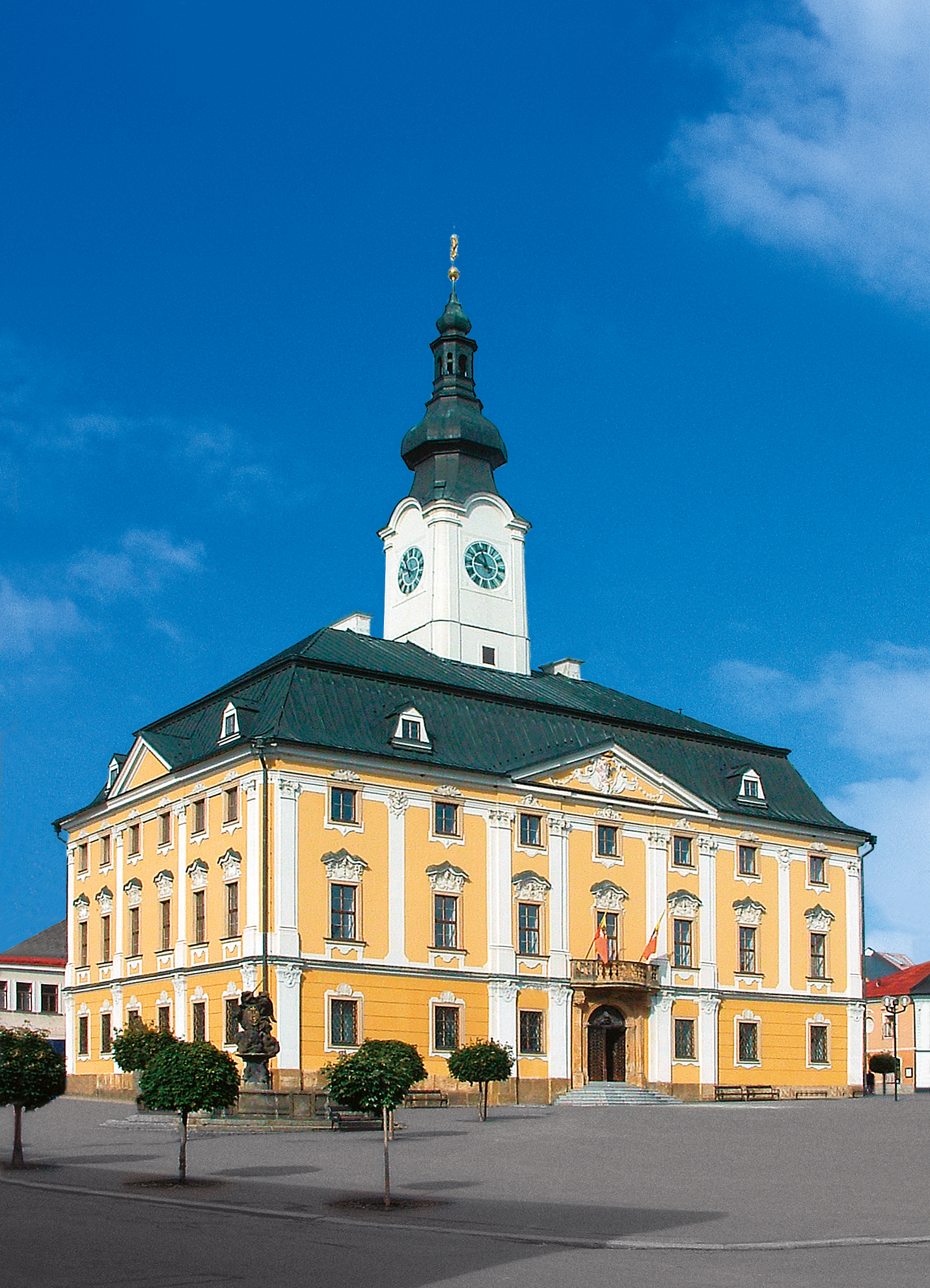 Town Hall in Polička, Municipal Gallery